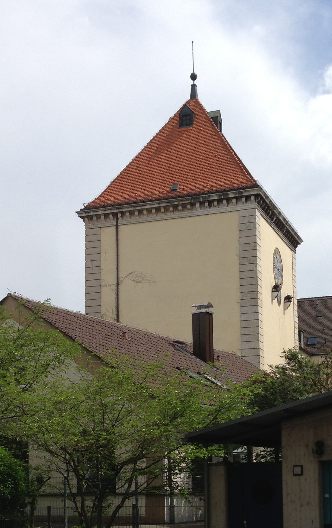 Bäckerstr. 10, München